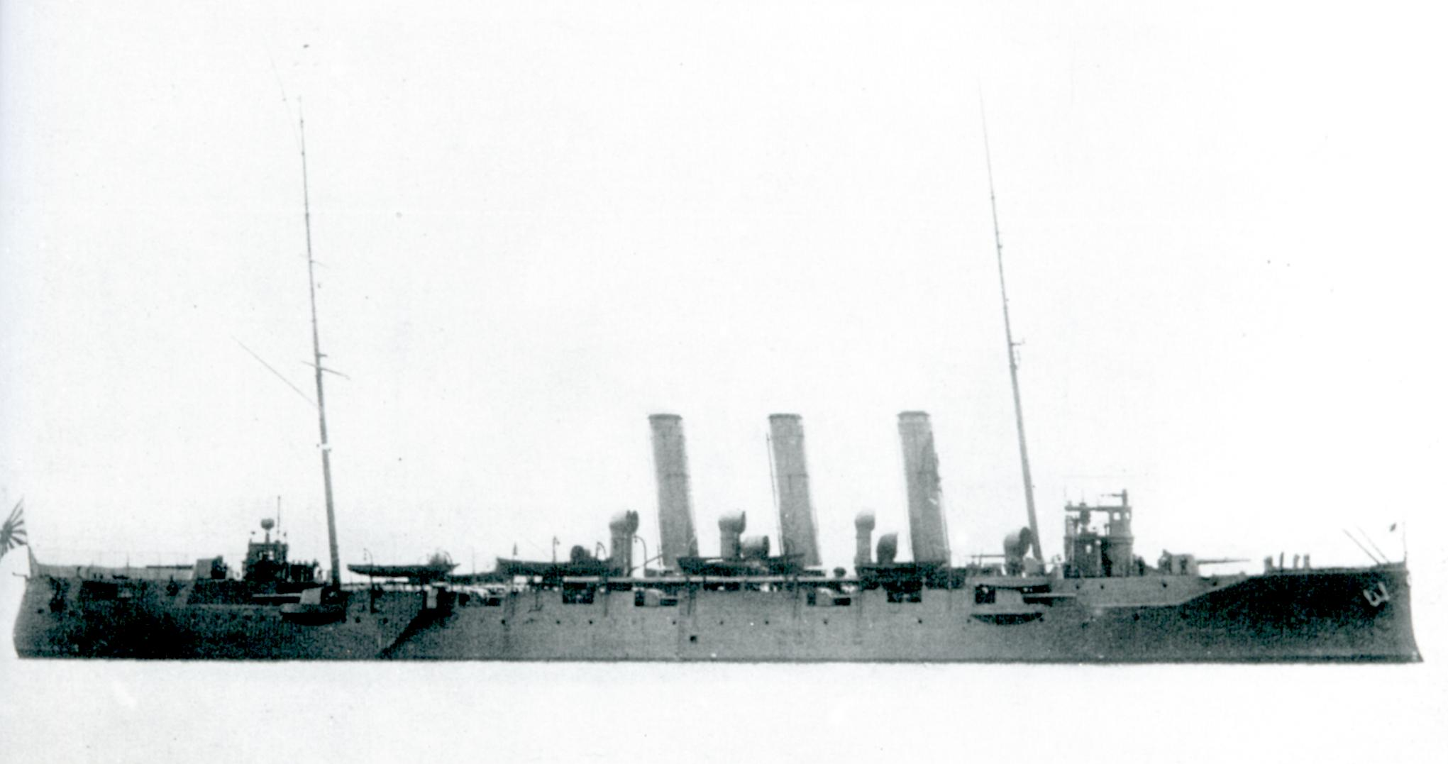 Japanese cruiser Tsushima in 1905